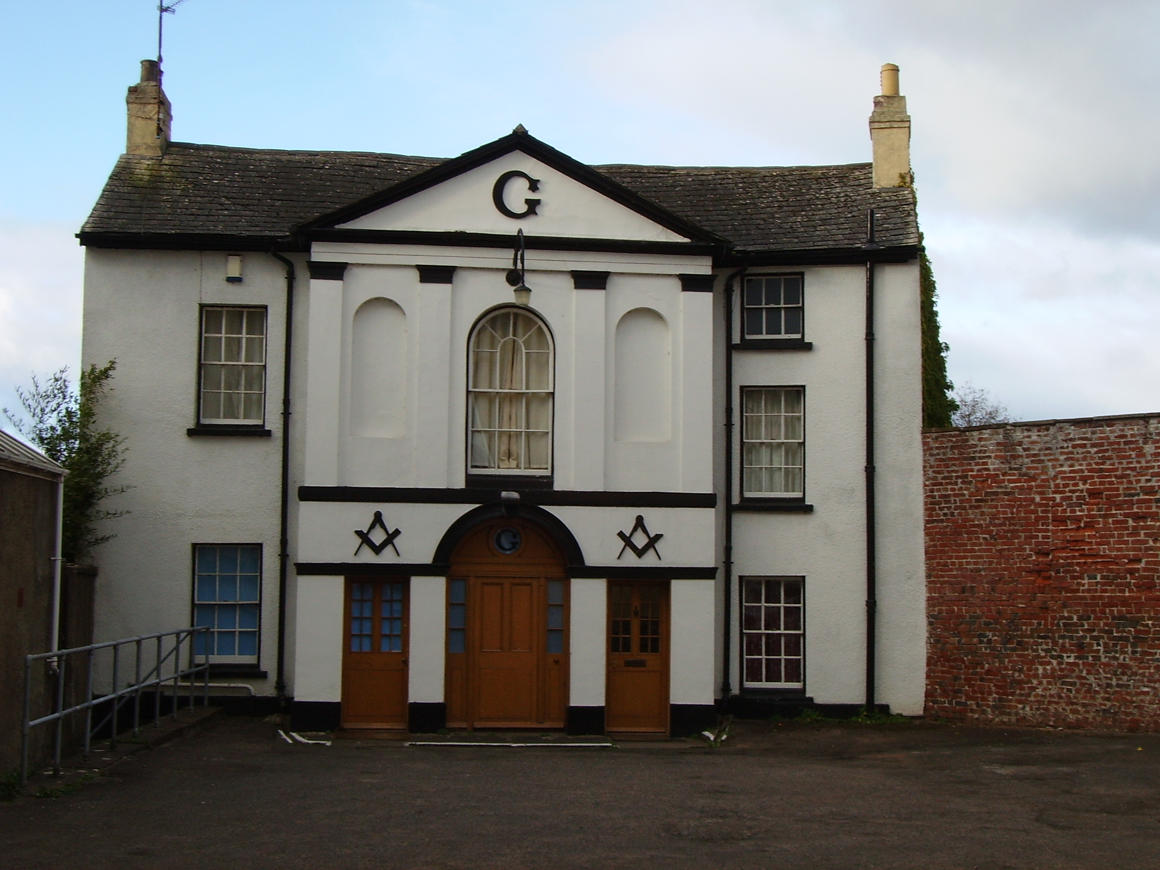 The Masonic Hall, Herefore Road, Monmouth, Wales